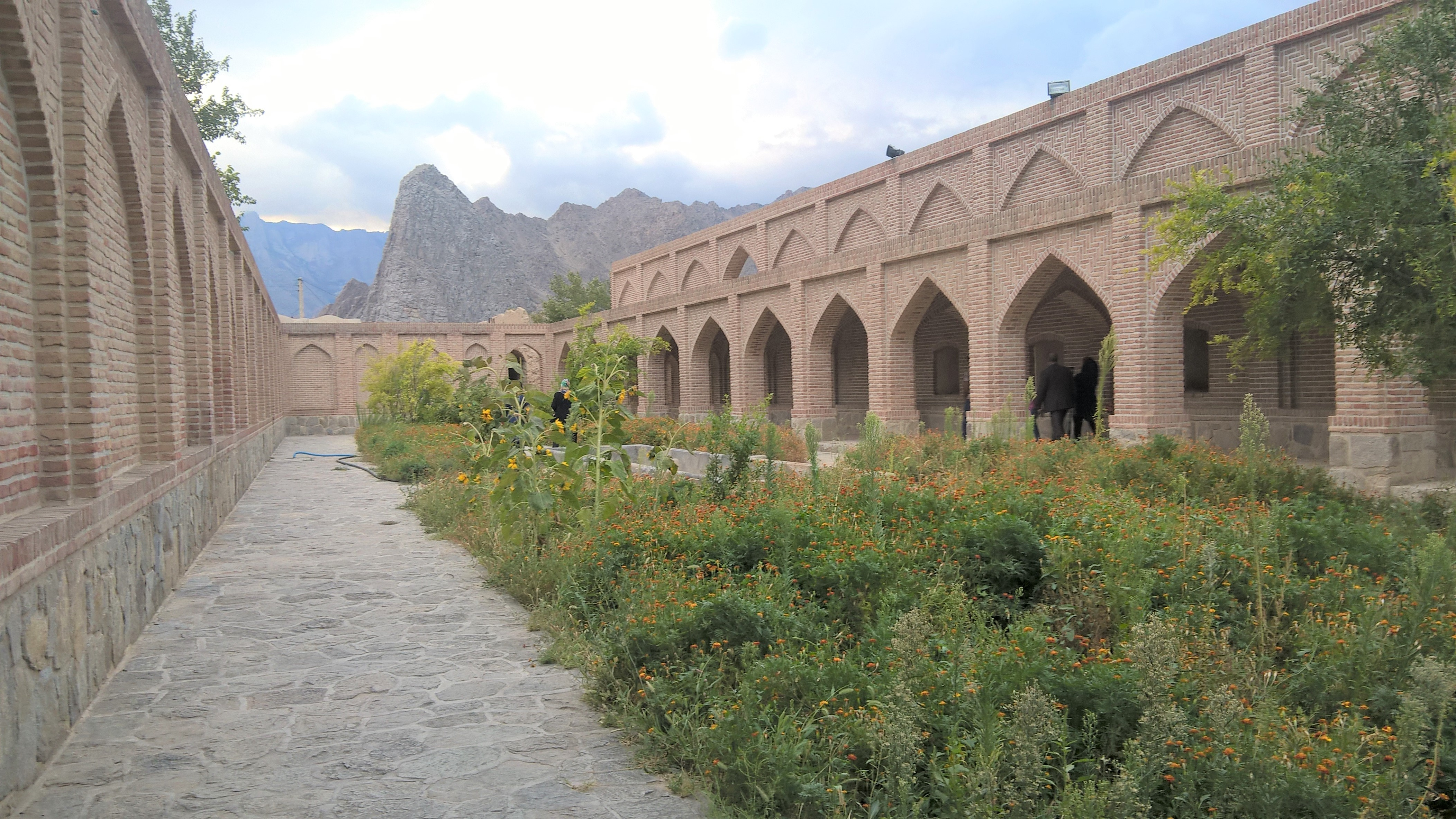 Kordasht Bath in Kordasht, Jolfa, East Azerbaijan, Iran.